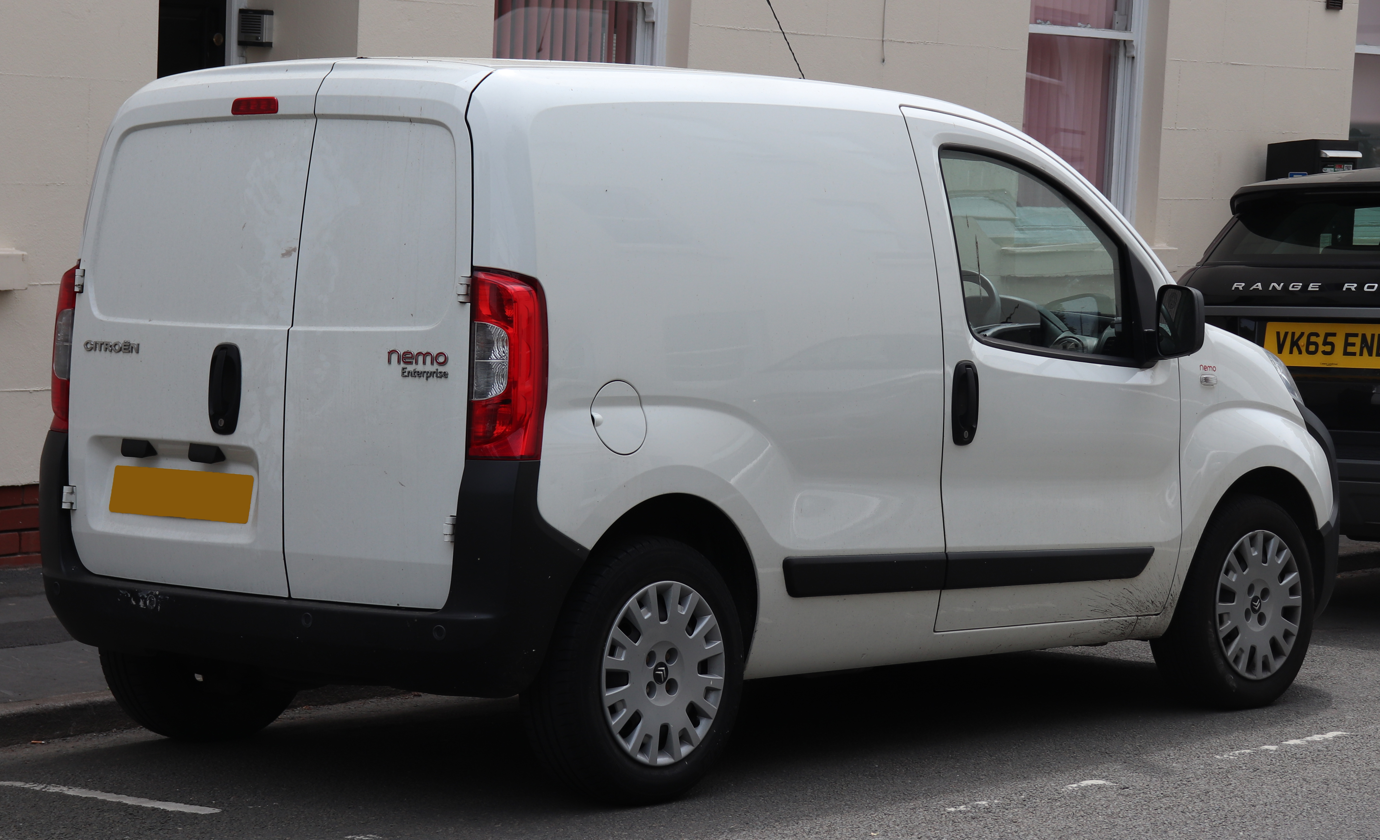 2012 Citroen Nemo 600 Enterprise HDi 1.2 Rear Taken in Leamington Spa